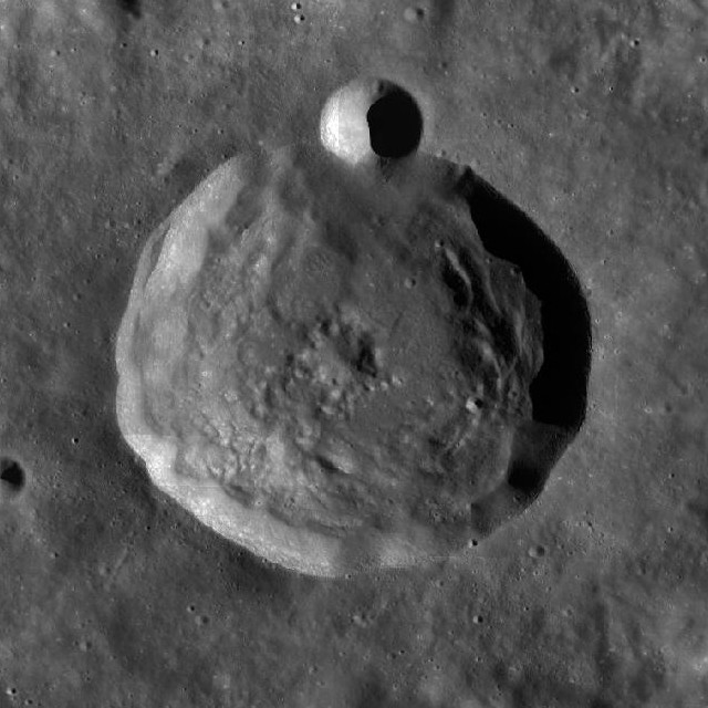 Ellerman crater, on the far side of the moon. Mosaic of LRO WAC images.